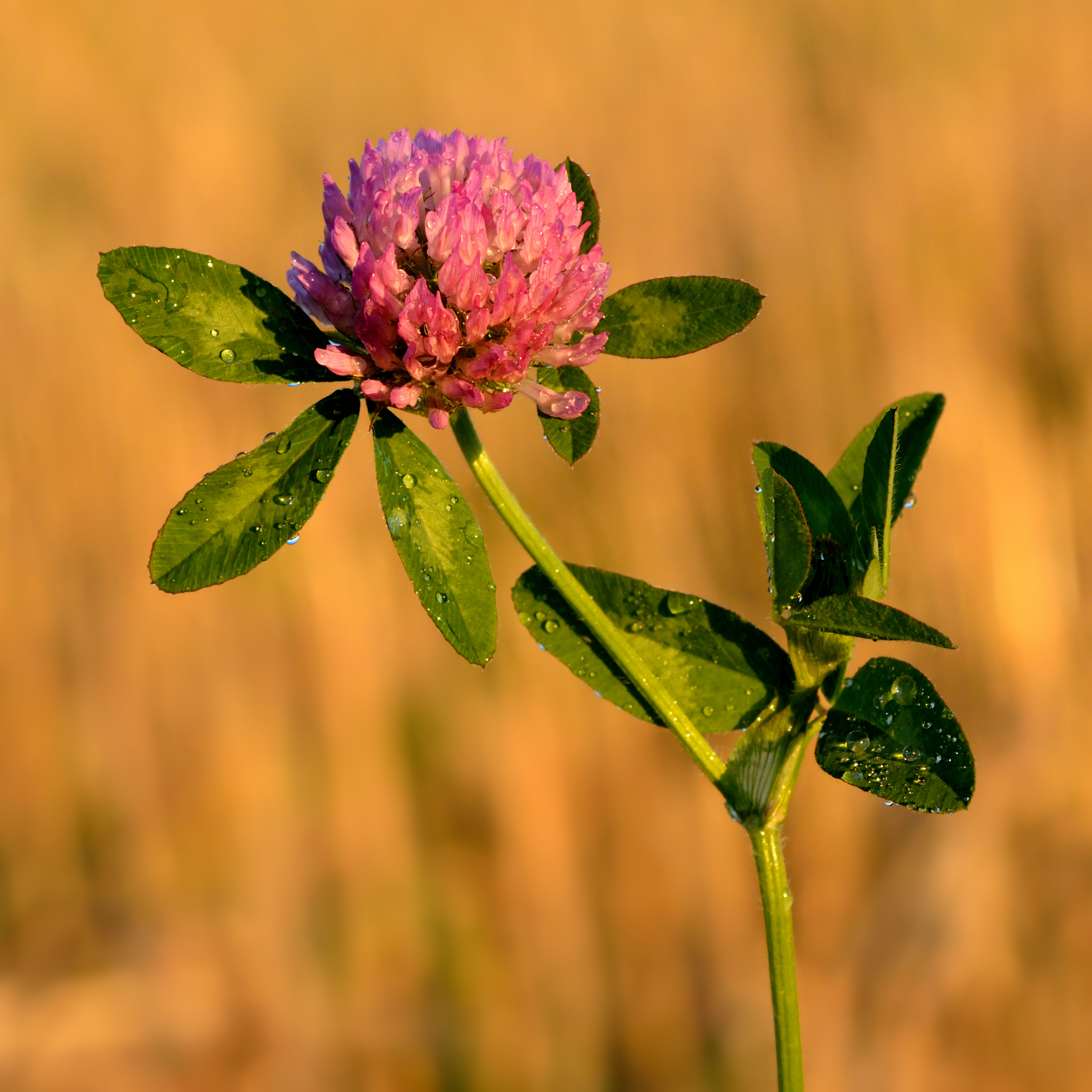 Red clover (Trifolium pratense). Keila, Northwestern Estonia.